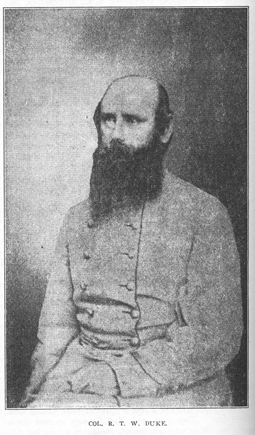 Portrait of Richard T.W. Duke during the American Civil War